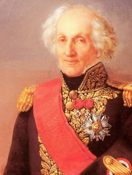 Amiral_Philippe_willaumez